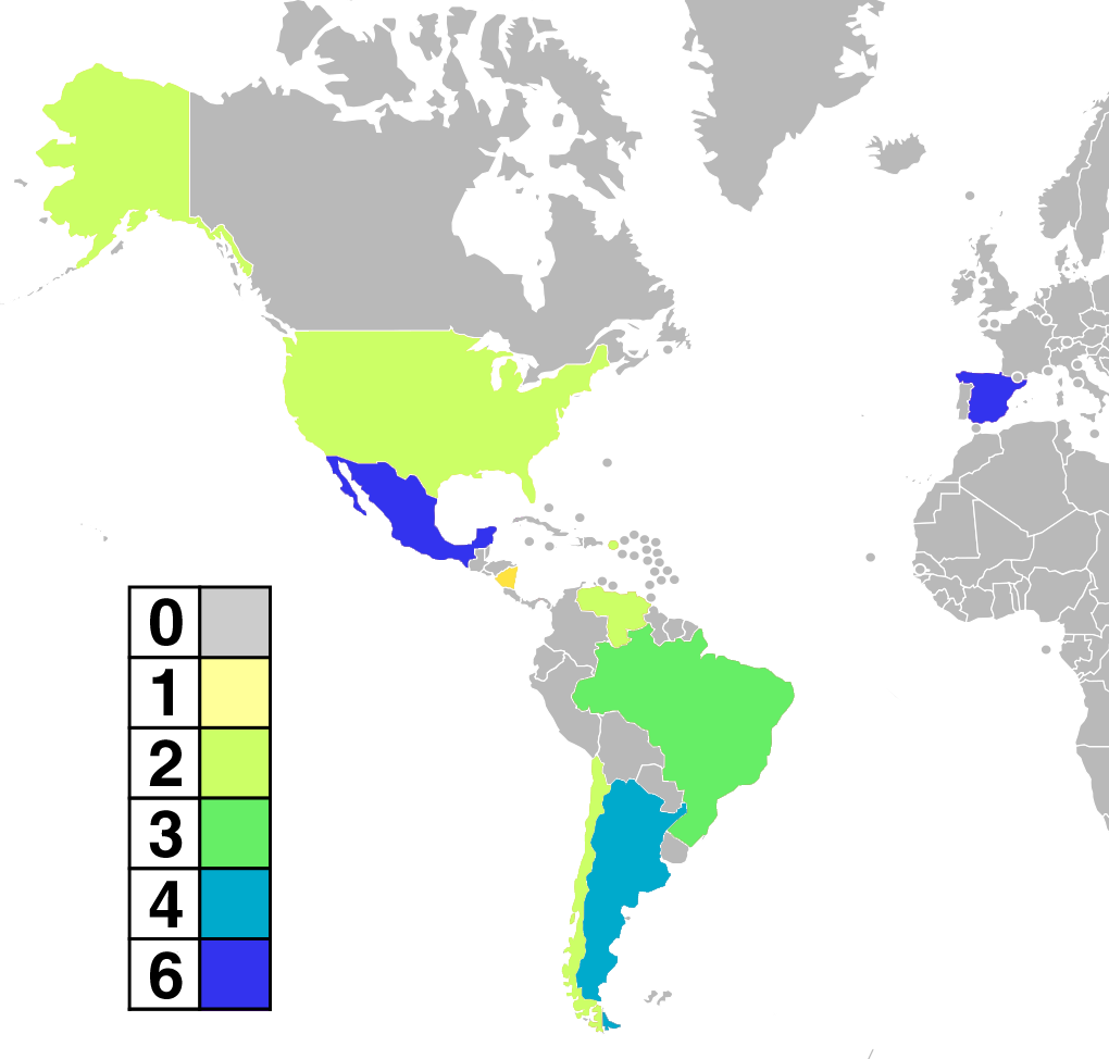 Map of Iberoamerica by OTI Festival victories.